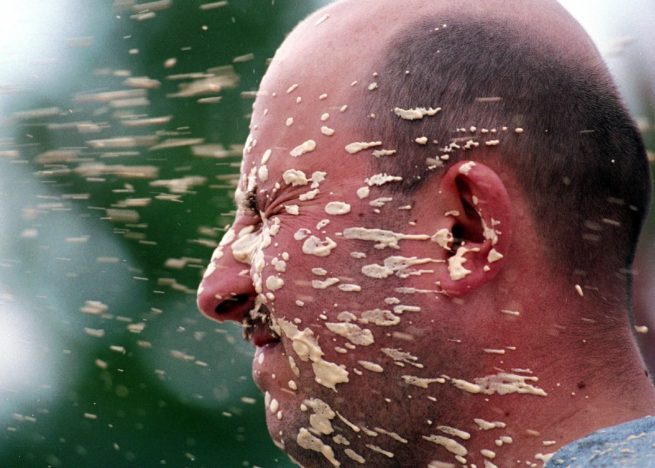 Smokey Point, Wash., (Aug. 21, 2002) -- Master at Arms 1st Class Darius Tolpa, assigned to Naval Station Everett Security, is sprayed with Oleoresin Capsicum, pepper spray, during a non-lethal riot control training exercise. Members of the Security team endure this type of training while attending security certification courses held at the Smokey Point Naval Support Complex. U.S. Navy photo by Photographer's Mate 3rd Class Katrina L. Beeler (RELEASED)